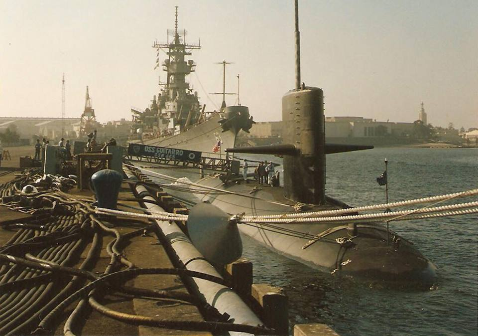 USS Guitarro (SSN-665) moored at North Island, San Diego, CA, hosting the first tour of a US nuclear submarine by high-ranking Russian officials. The ship astern is the battleship USS Missouri (BB-63). Photo by John MacKay